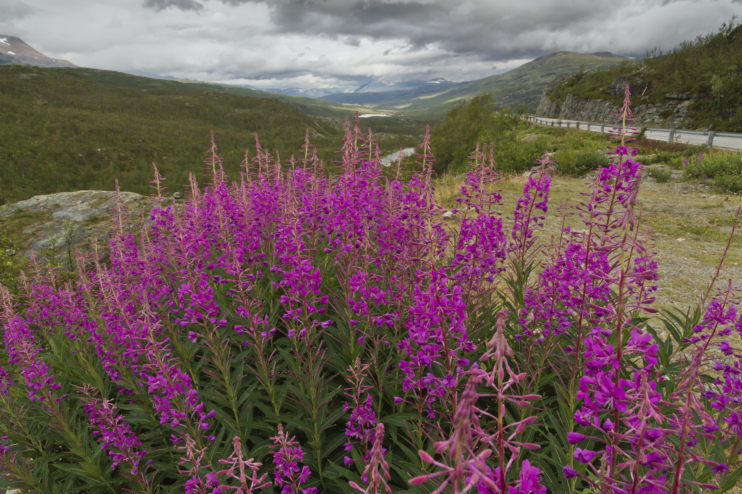 Fireweed, rosebay willowherb or great willow-herb (Chamerion angustifolium) by the E8 road in Skibotndalen, Storfjord, Troms, Norway in 2014 July.